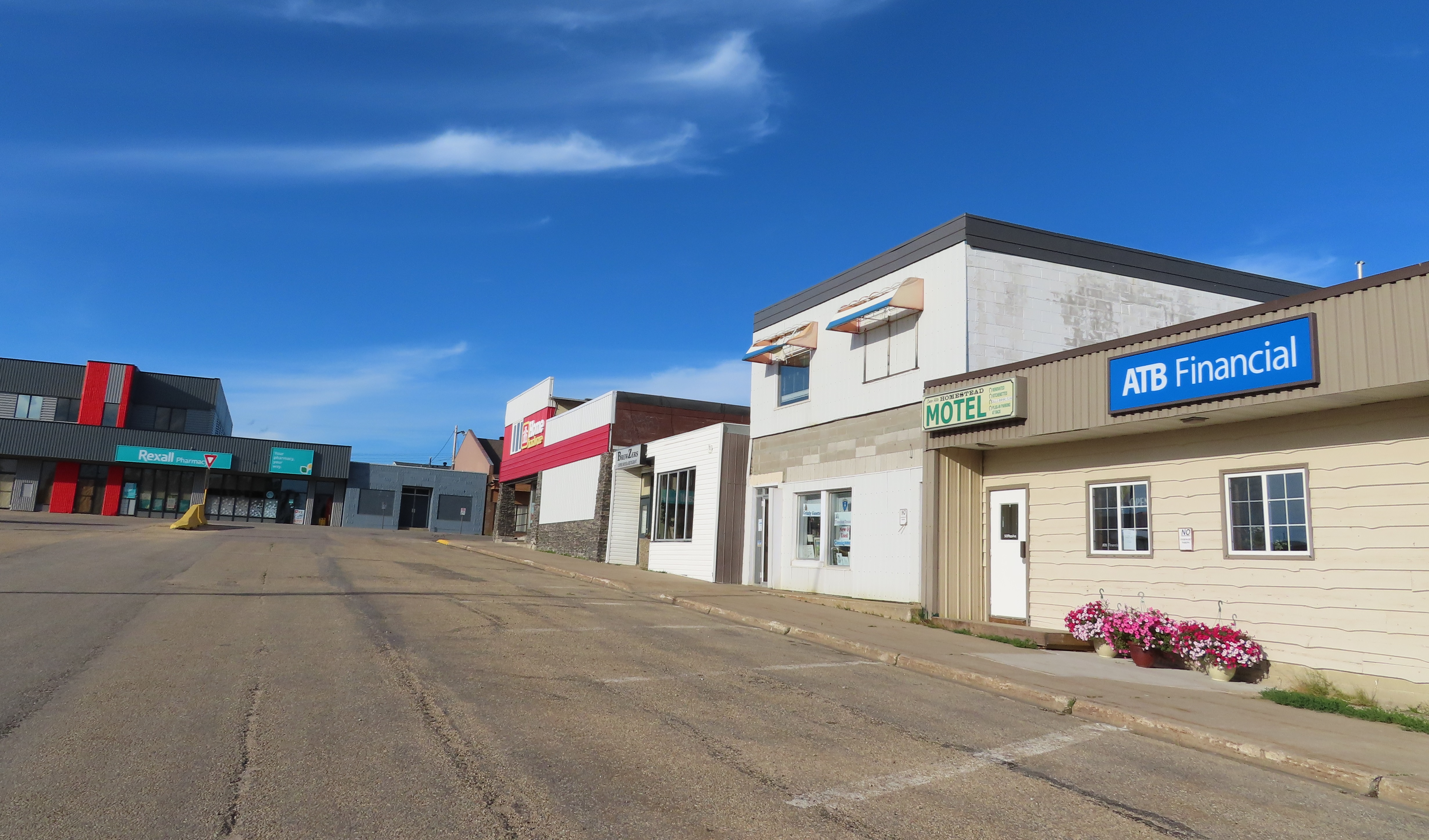 Central business street of Swan Hills, Alberta. Deserted on Labour Day.